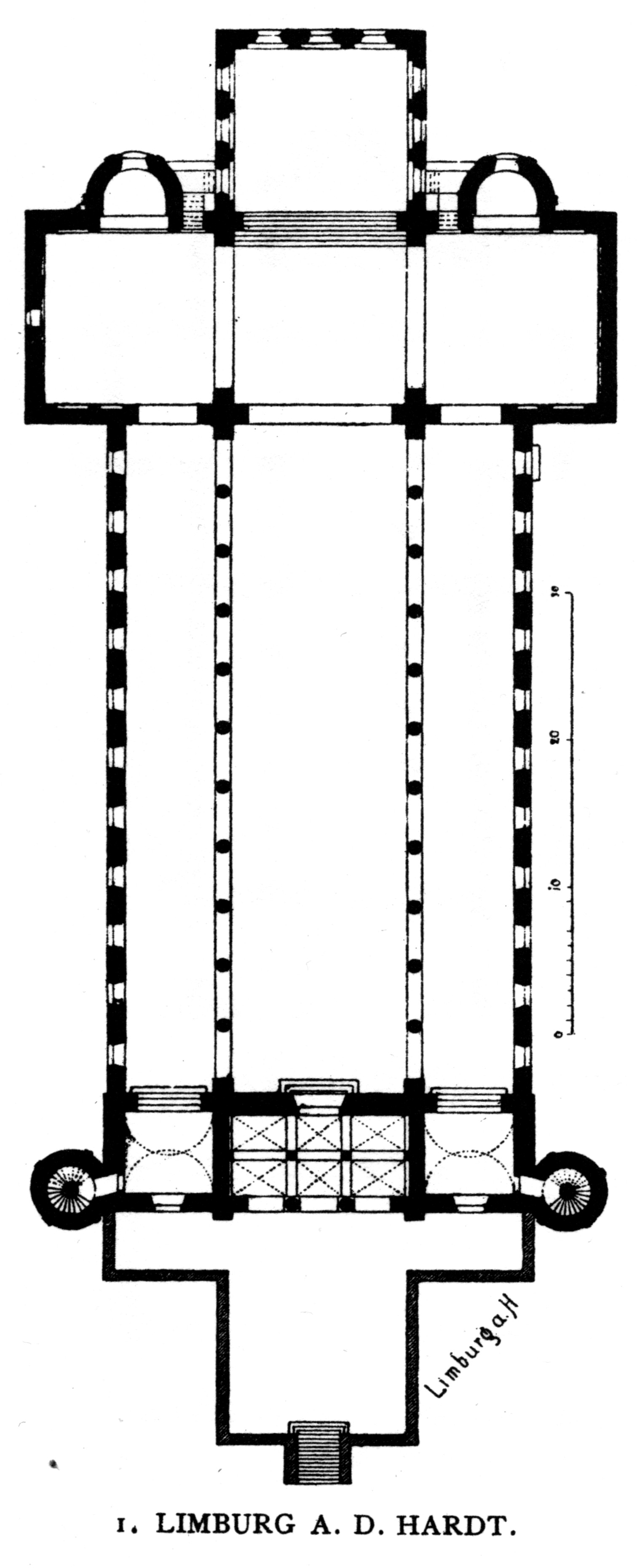 Kloster Limburg am Haardt, monastery church. floor plan.